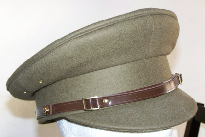 British officer peaked cap --here, whithout unit or rank insignia.